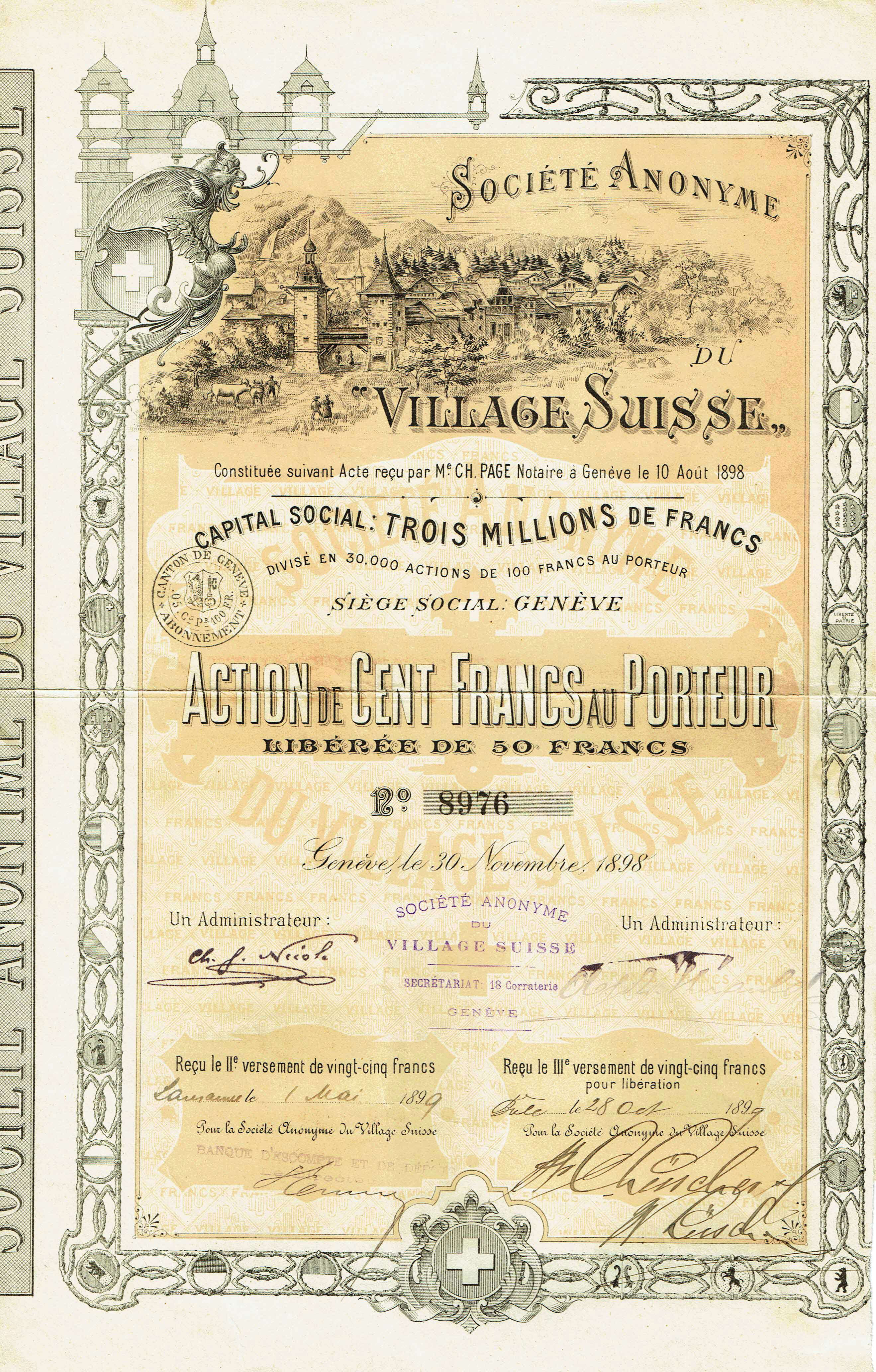 Share of the S.A. du Village Suisse, issued 30. November 1898